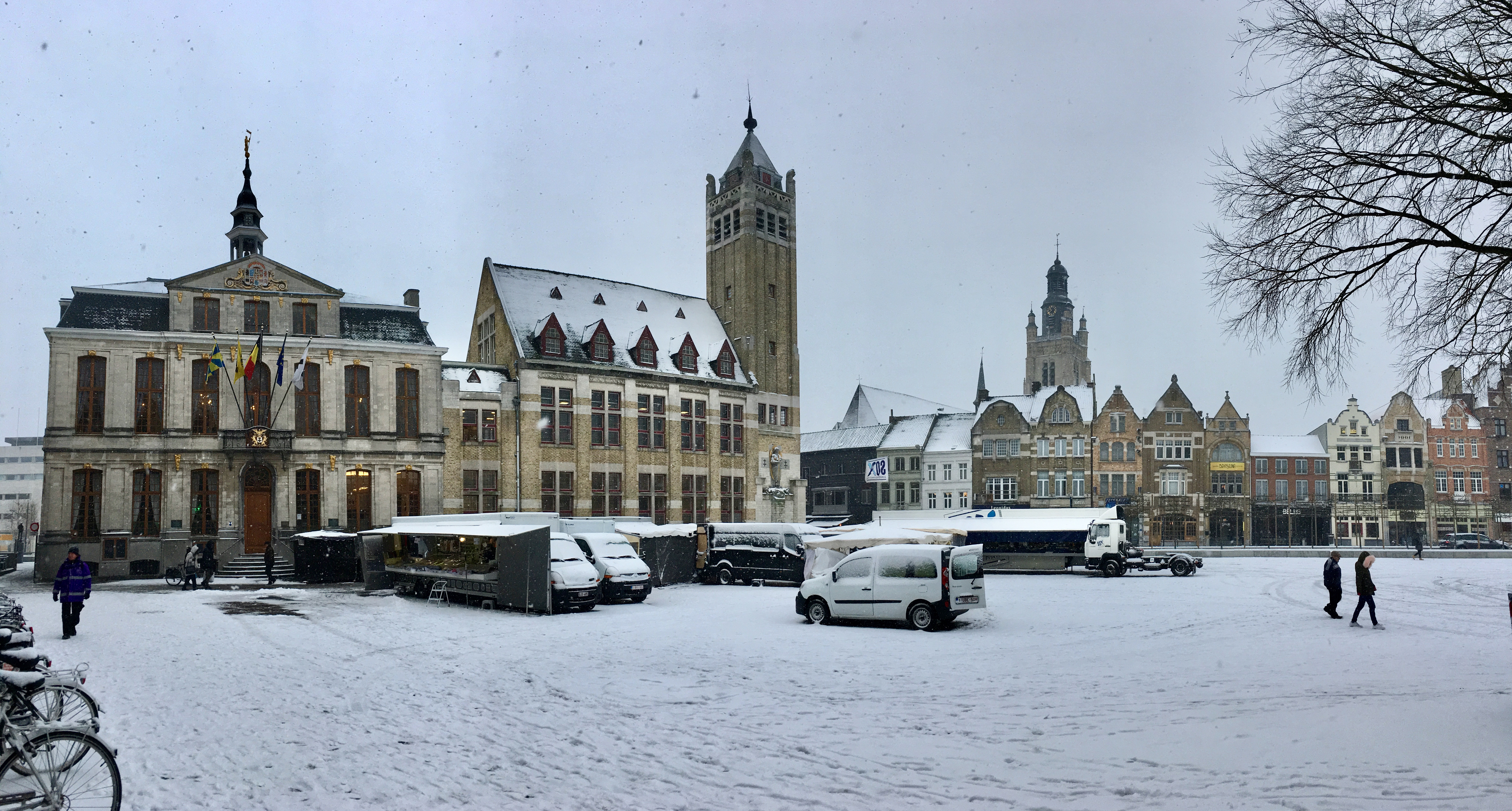 Grote Markt van Roeselare anno 2019